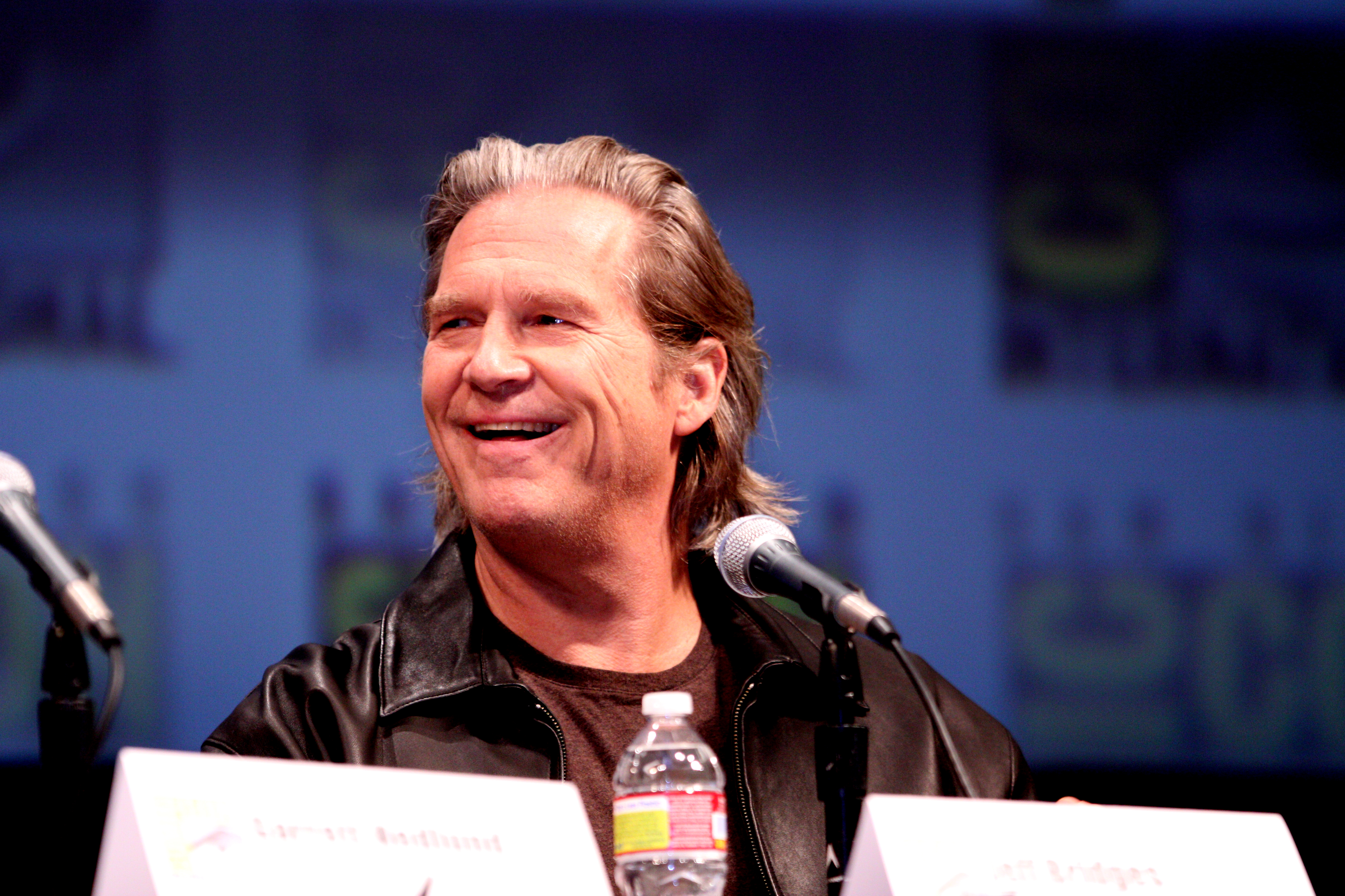 Actor Jeff Bridges on the Tron: Legacy panel at the 2010 San Diego Comic Con in San Diego, California.